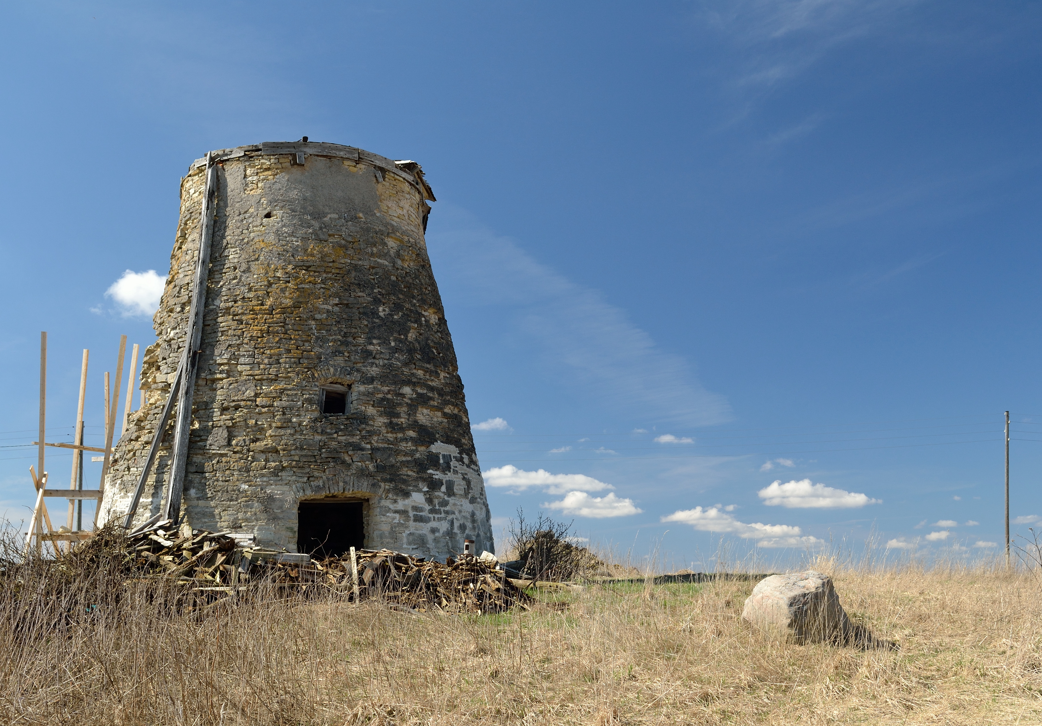 Köisi windmill